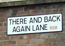 "There and Back Again Lane" street indicator, in central Bristol. ¿An allusion to The Hobbit?